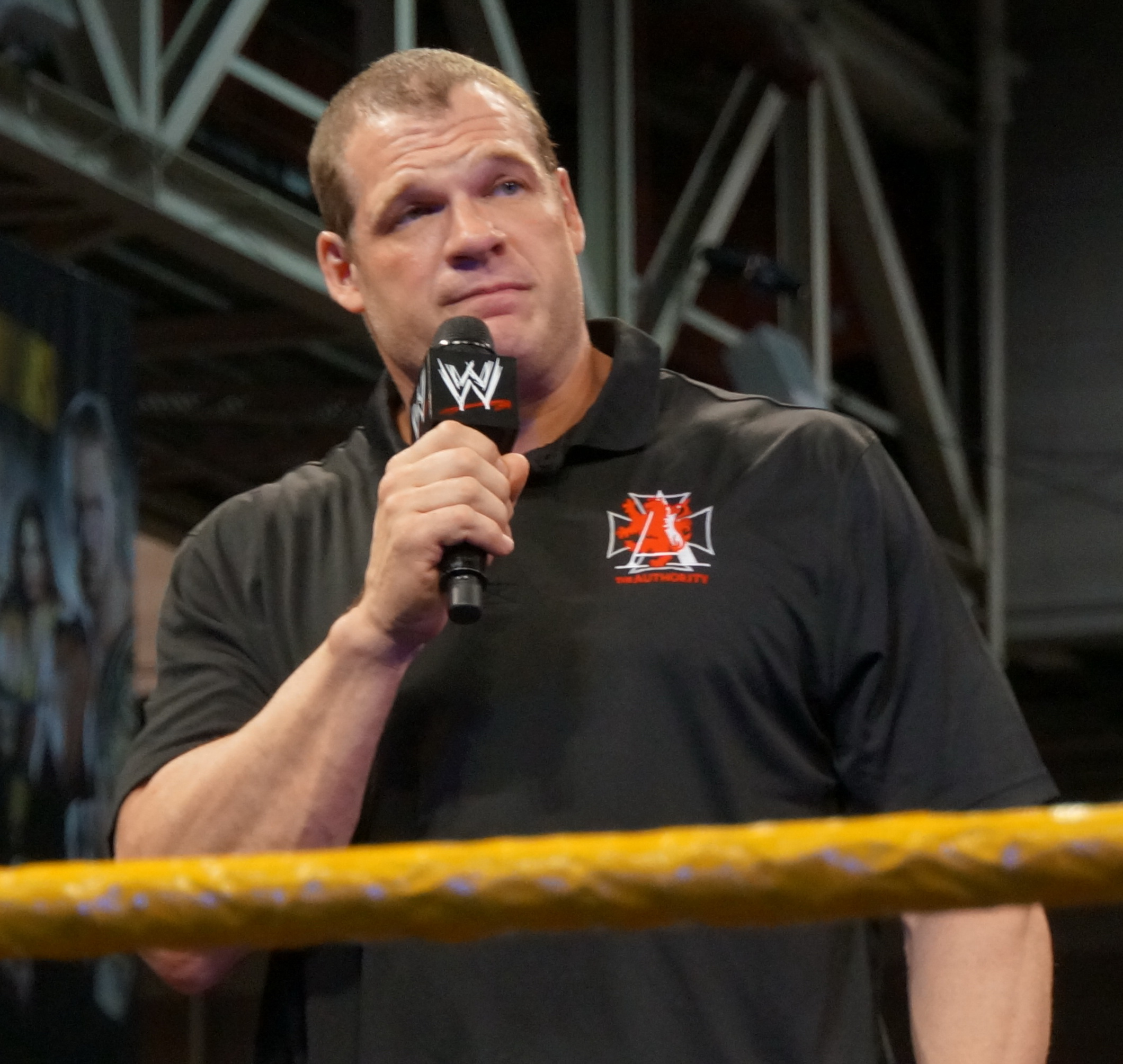 Kane at WWE's WrestleMania Axxess on April 3, 2014.